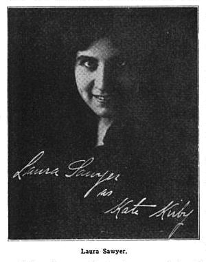 Actress Laura Sawyer